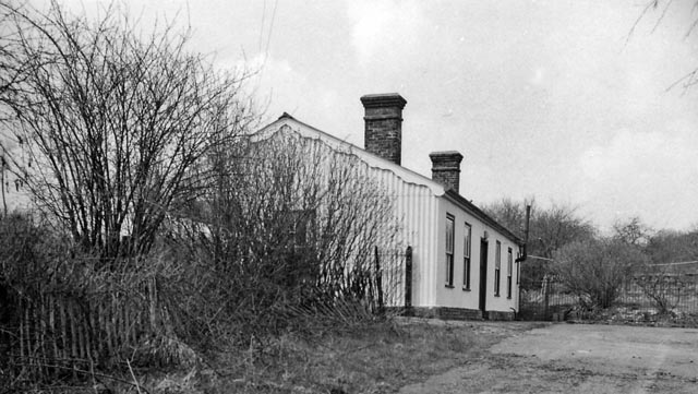 Bridge Station (remains/converted) View NW, towards Canterbury West; ex-SE&C Canterbury West - Shorncliffe (Elham Valley) line. Line closed (taken over by WD) 1/12/40, closed completely 16/6/47. See also Barham TR2049 : Barham Station (remains) and Bishopsbourne TR1852 : Bishopsbourne Station (remains) .